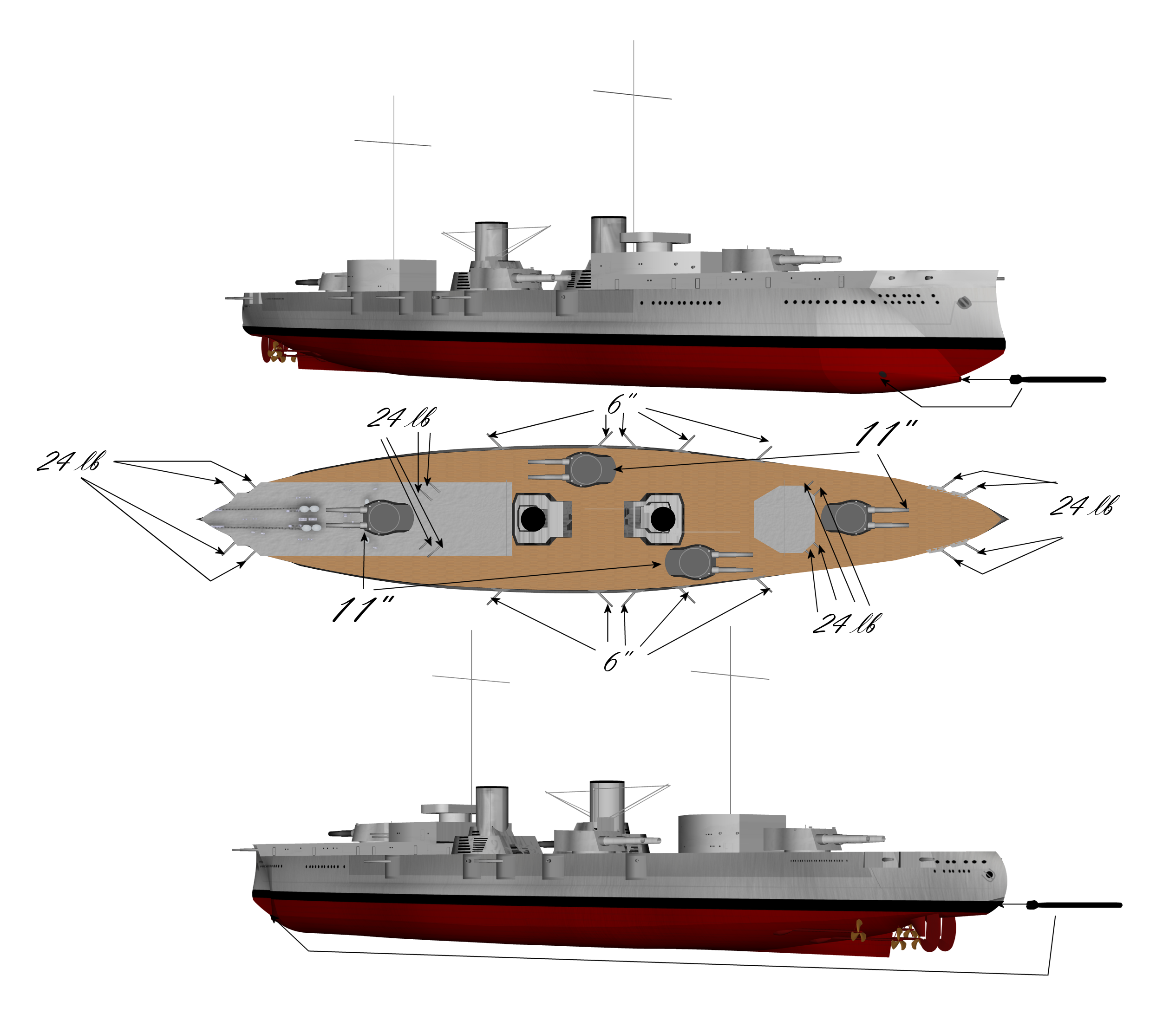 SMS Von der Tann under construction